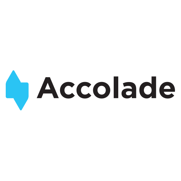 Accolade Group logo